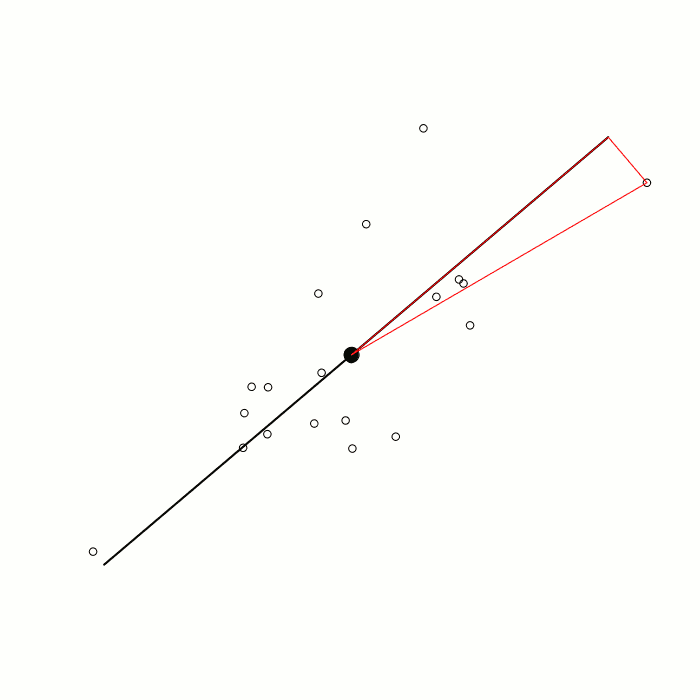 Visualize the idea of principal component analysis